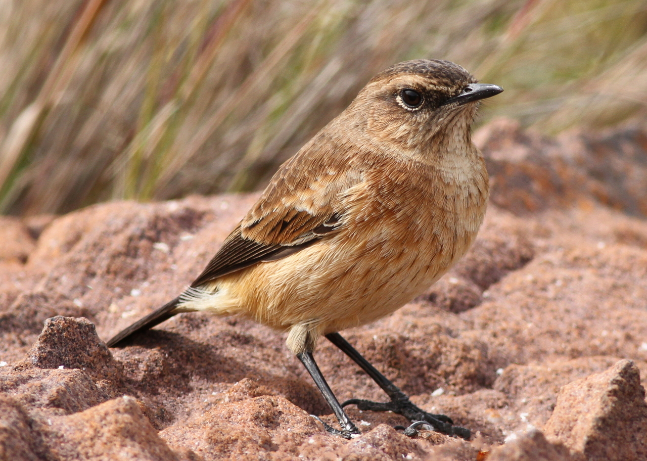 Buff-streaked Chat, Buff-streaked Bushchat, Campicoloides bifasciatus (female) at Marakele National Park, South Africa